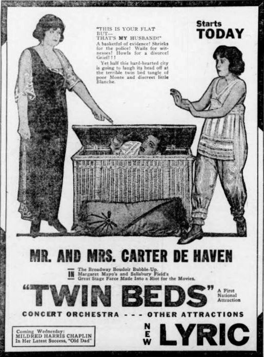 Newspaper advertisement for the American silent comedy film Twin Beds (1920) with Helen Raymond (1878 – 1965), Carter DeHaven, and Flora Parker DeHaven, on page 7 of the December 18, 1920 The Duluth Herald.